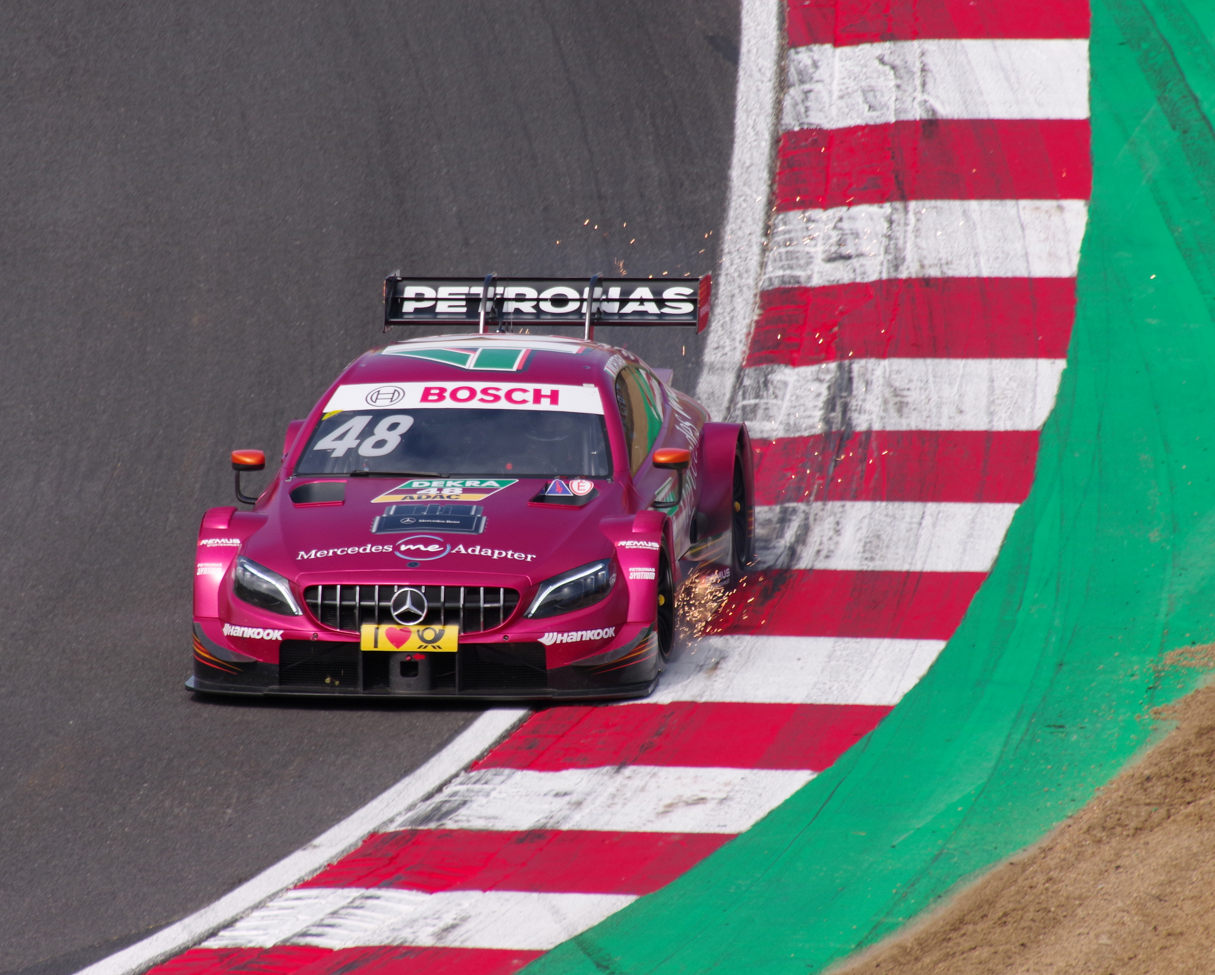 2018 Deutsche Tourenwagen Masters, Brands Hatch.